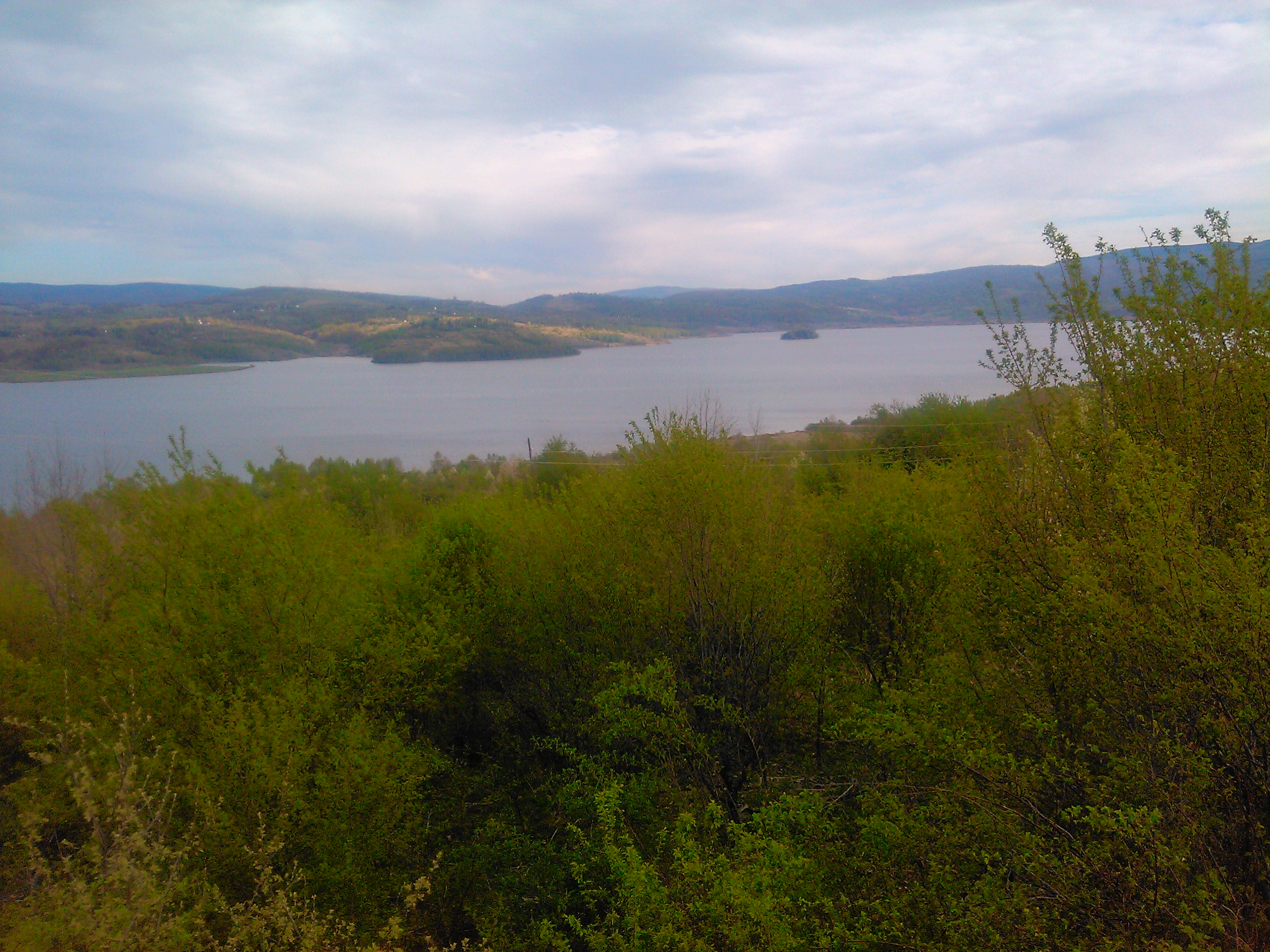 Pogled na Vlasinsko jezero iz Vlasine Rid